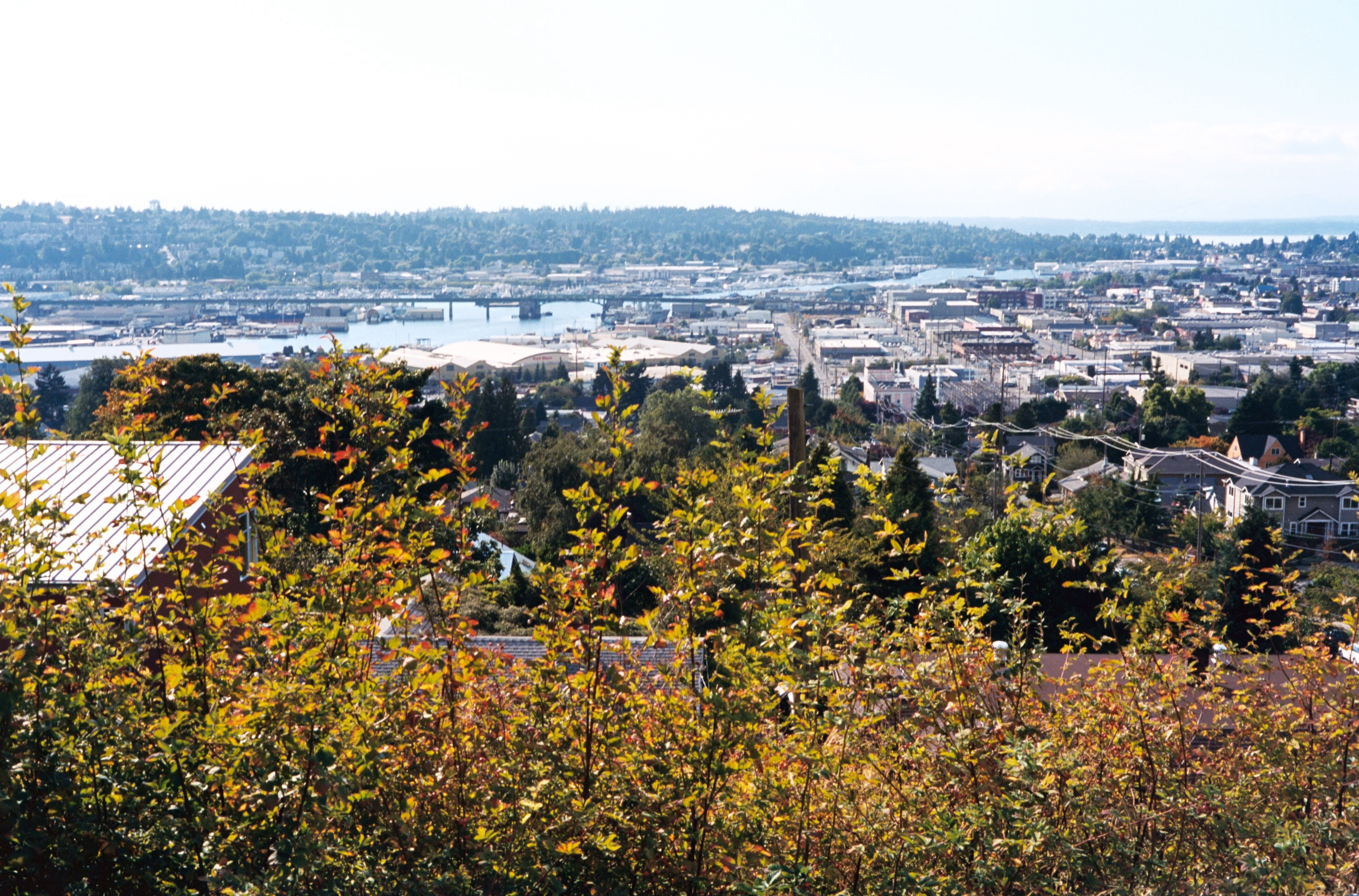 Salmon Bay seen from Fremont Peak Park, Seattle, Washington